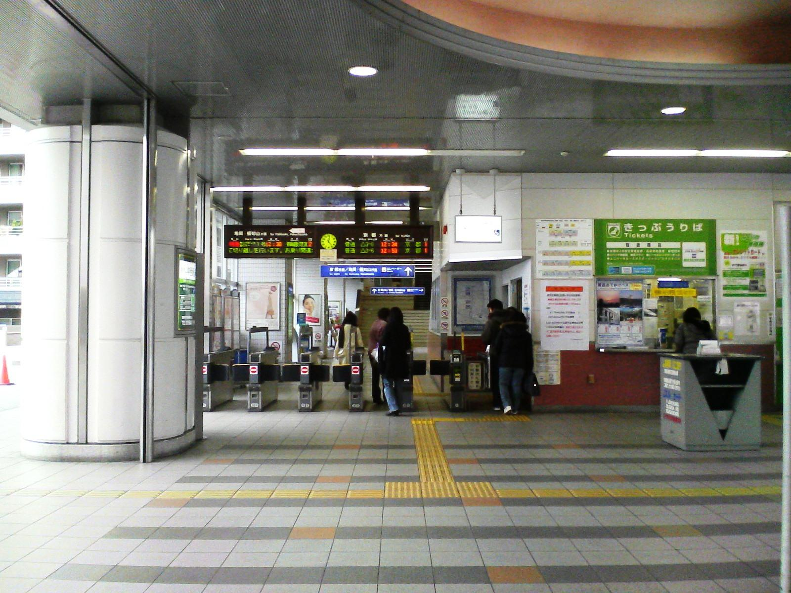 JR Nijo Station